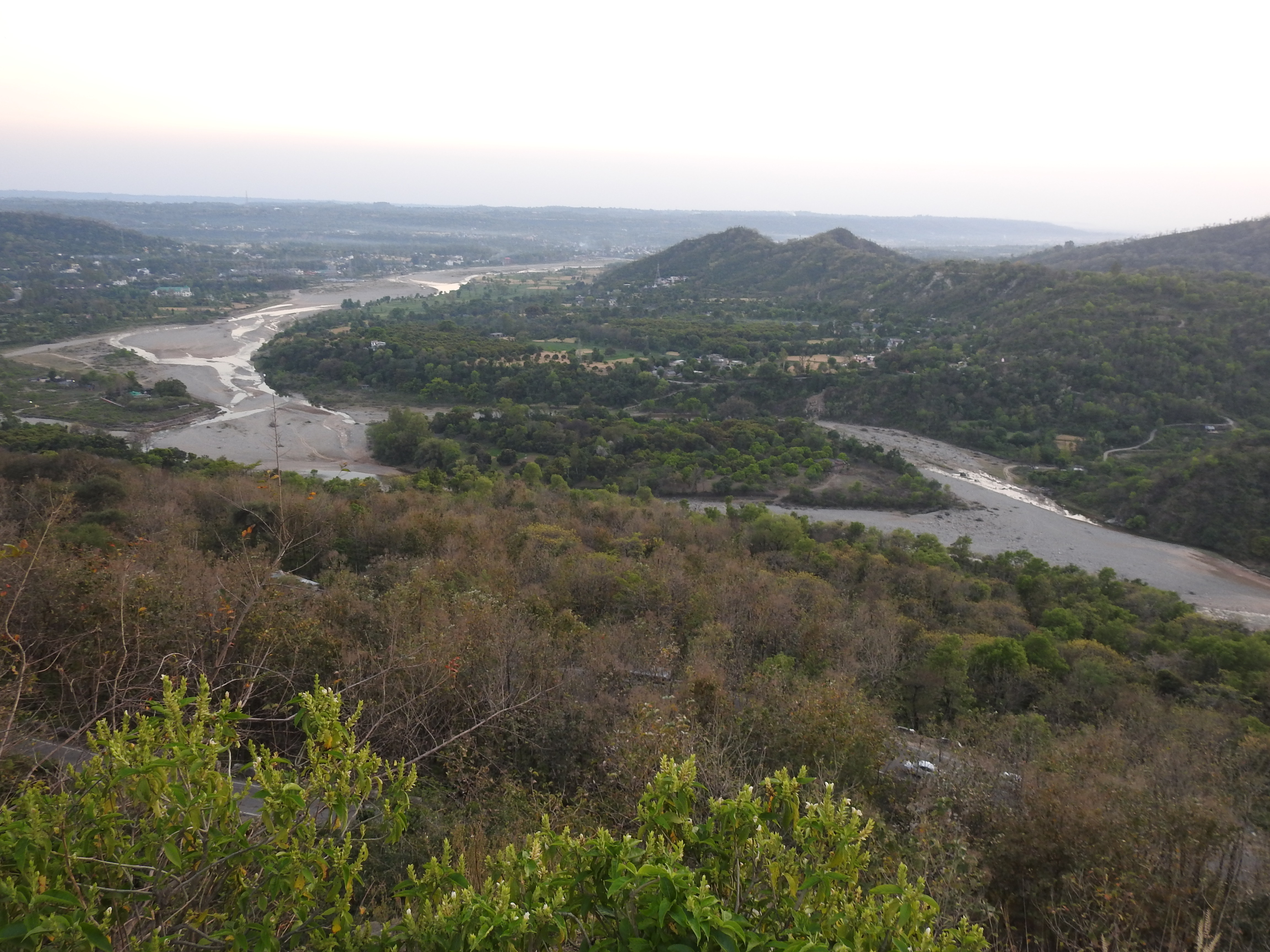 View of Ravi river from Nurpur fort ,Kangra ,Himachal Pardesh